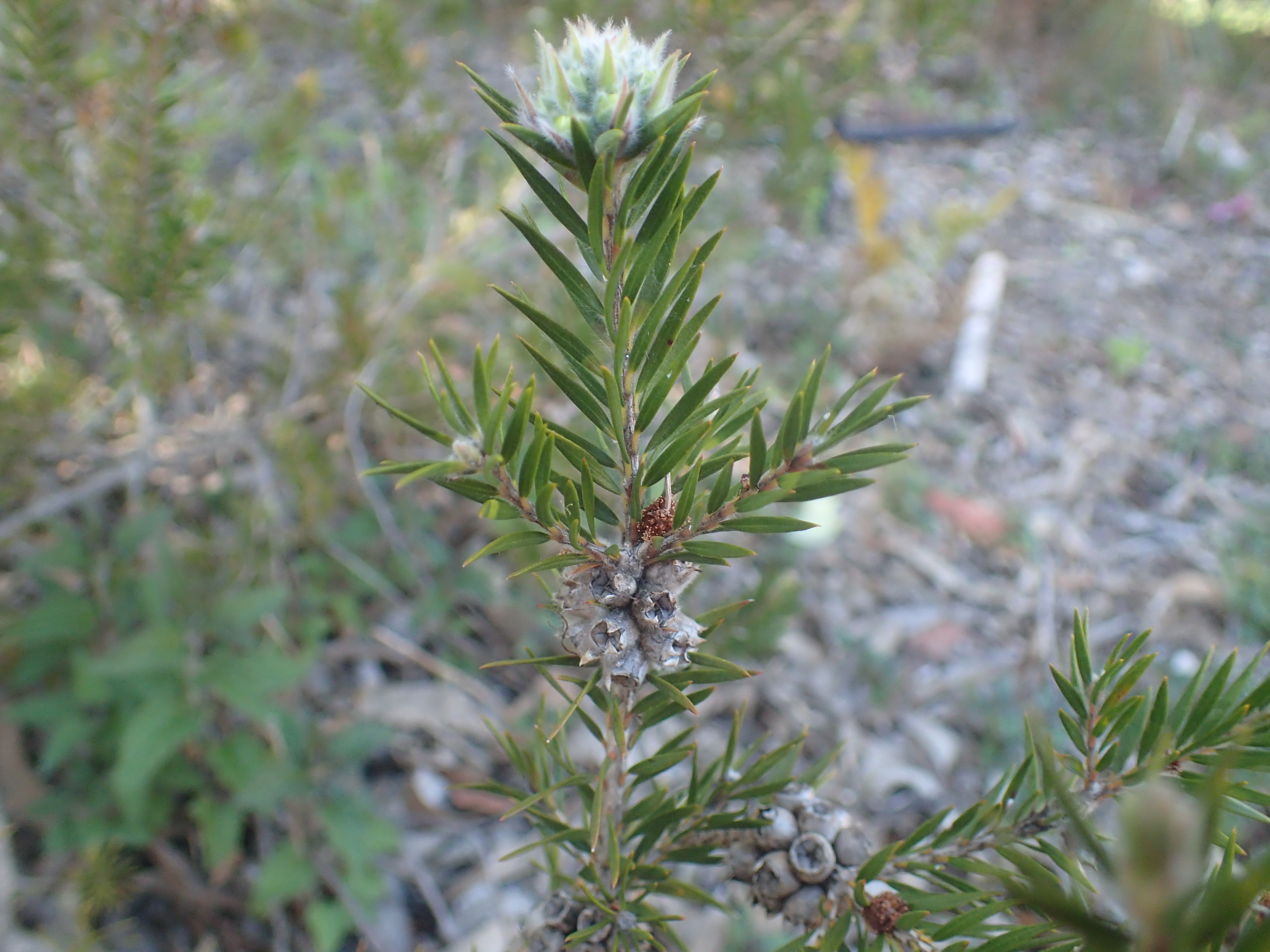 Melaleuca capitata in the Australian National Botanic Gardens